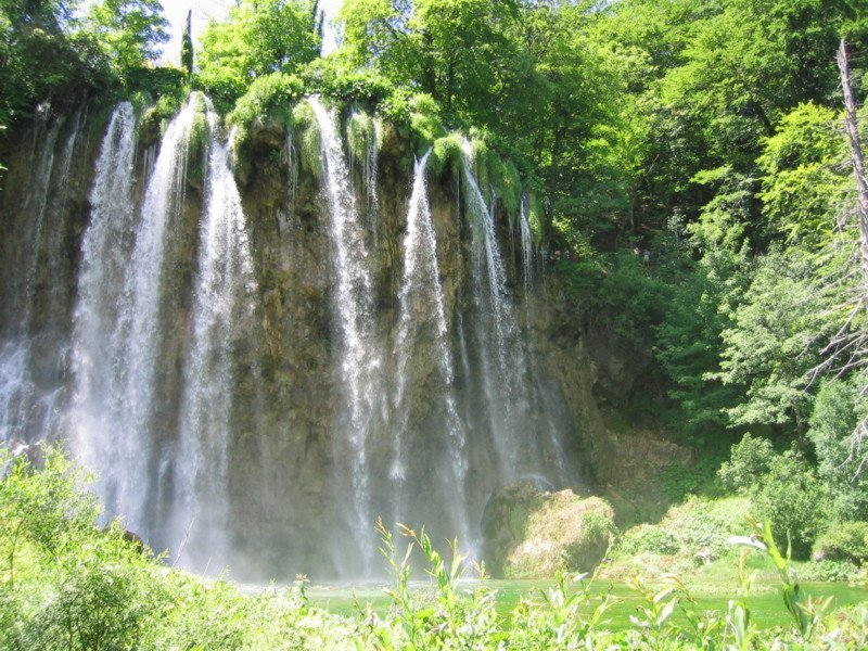 Plitvice nationalpark summer 2005. Picture: Tomi Nieminen